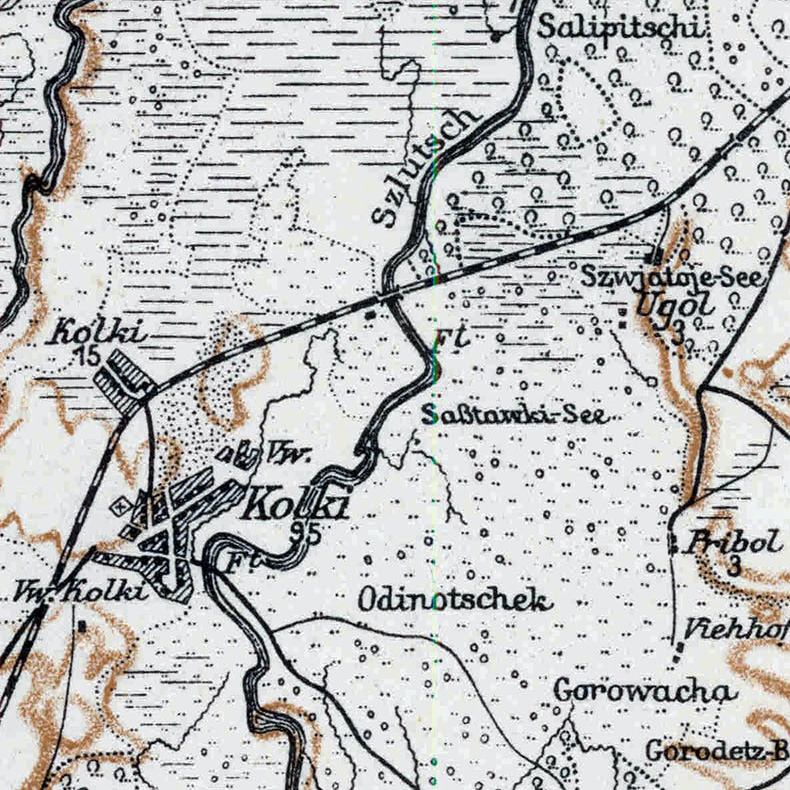 Kolky on the map "Karte des Westlichen Russlands", T 35, 1917. According to Digital Repository of Scientific Institutes and Kujawsko-Pomorska Digital Library the map is in the public domain.